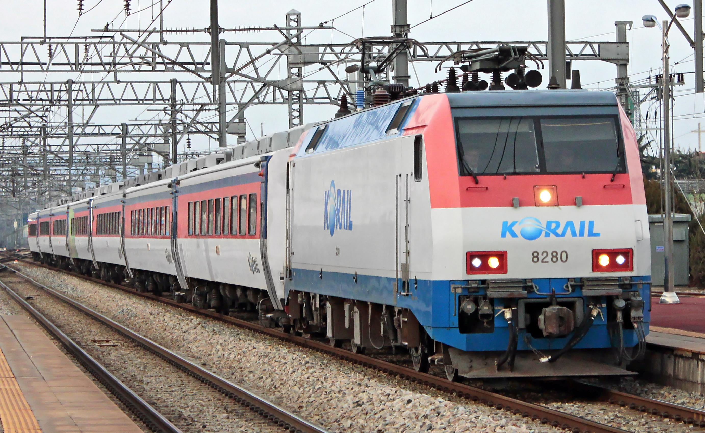 Honam Line Southbound Mugunghwa-ho w/EL8200 @Seodaejeon Station